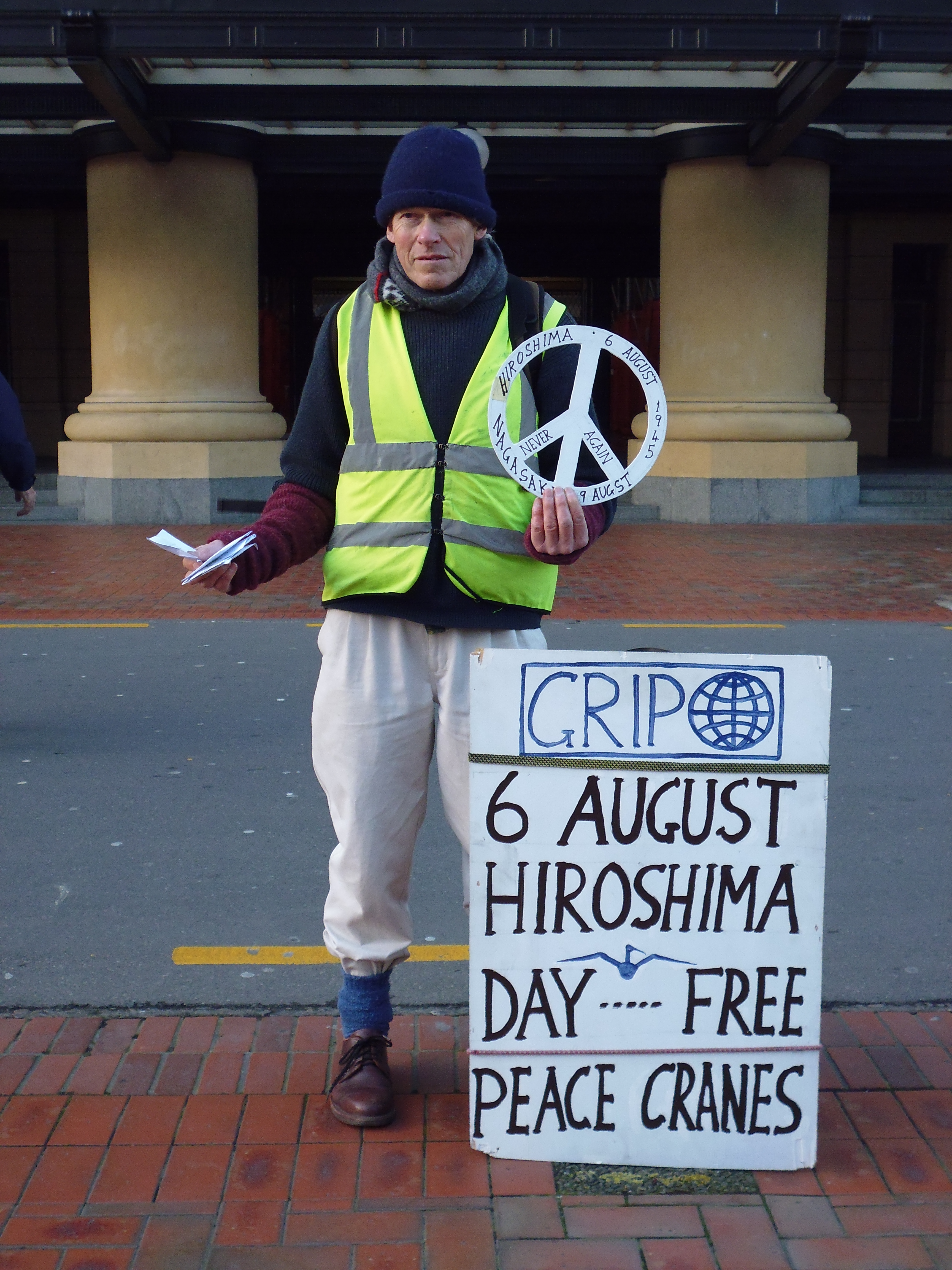 An activist handing out peace cranes on 6 August 2014, Hiroshima Day. He was outside of the Wellington Train Station.